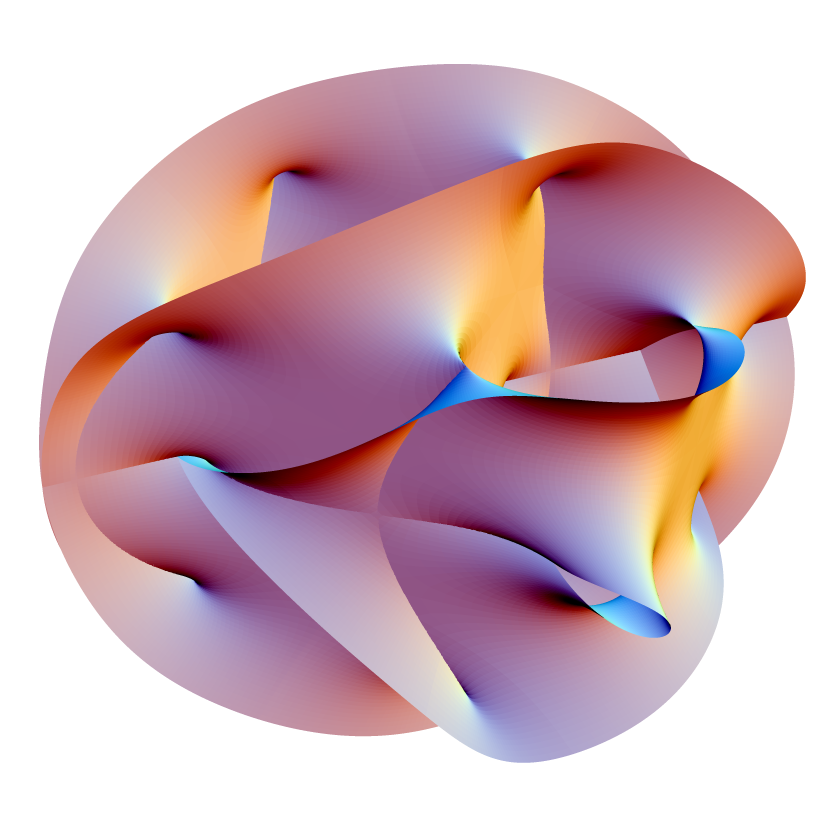 This image is a somewhat fair reconstruction of an image of the Calabi–Yau manifold that appears as a figure in the paper: Leonard Susskind (November 2003). "Superstrings (Features: November 2003)". Physics World 16 (11). Retrieved on 2007-07-24. I created this image myself to replace File:Calabi-Yau.jpeg (an illicit copy of the original). To recreate the image's likeness without copying the image, I used the description on the home page of Prof. Andrew Hanson of the computer science department at the University of Indiana, and the procedure he provides in the paper: A.J. Hanson (November/December 1994). "A construction for computer visualization of certain complex curves". Notices of the Amer.Math.Soc. 41 (9): 1156-1163. In particular, the image I created resembles this image on Prof. Hanson's home page, as well as the figure from the Physics World article.